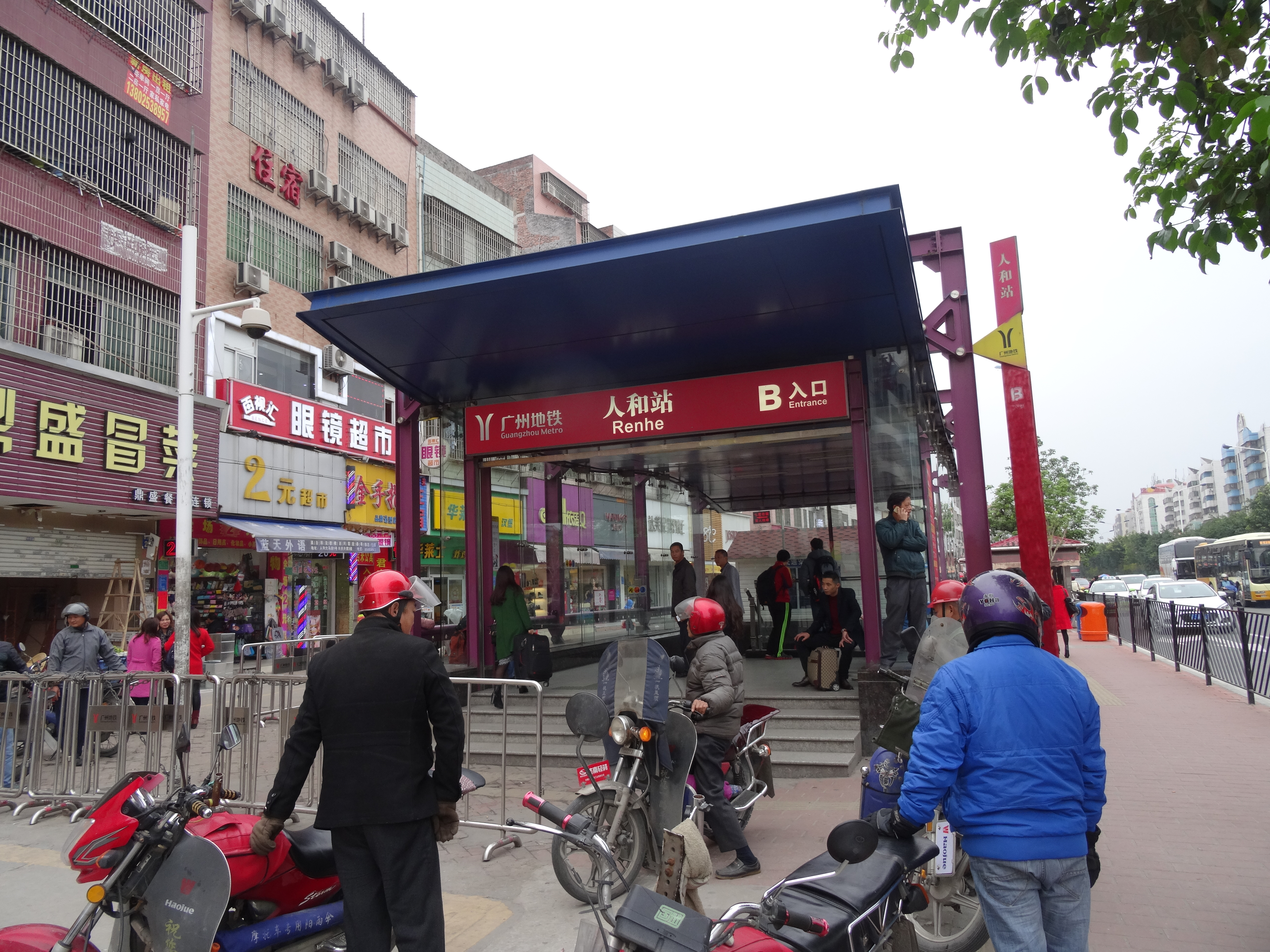 人和站嘅B出入口